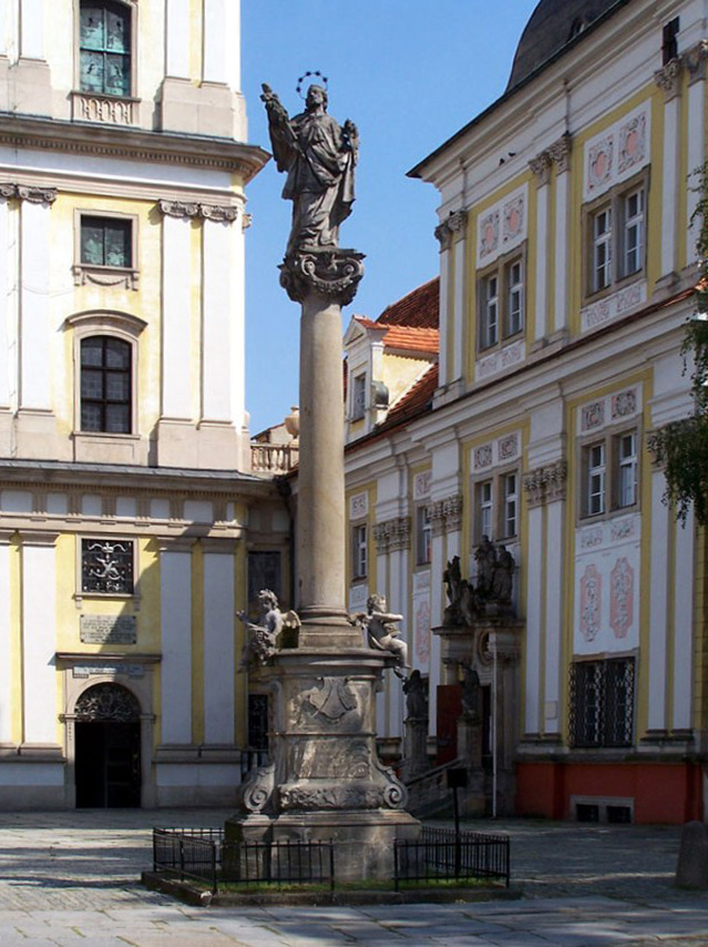 Statue of John of Nepomuk, Trzebnica